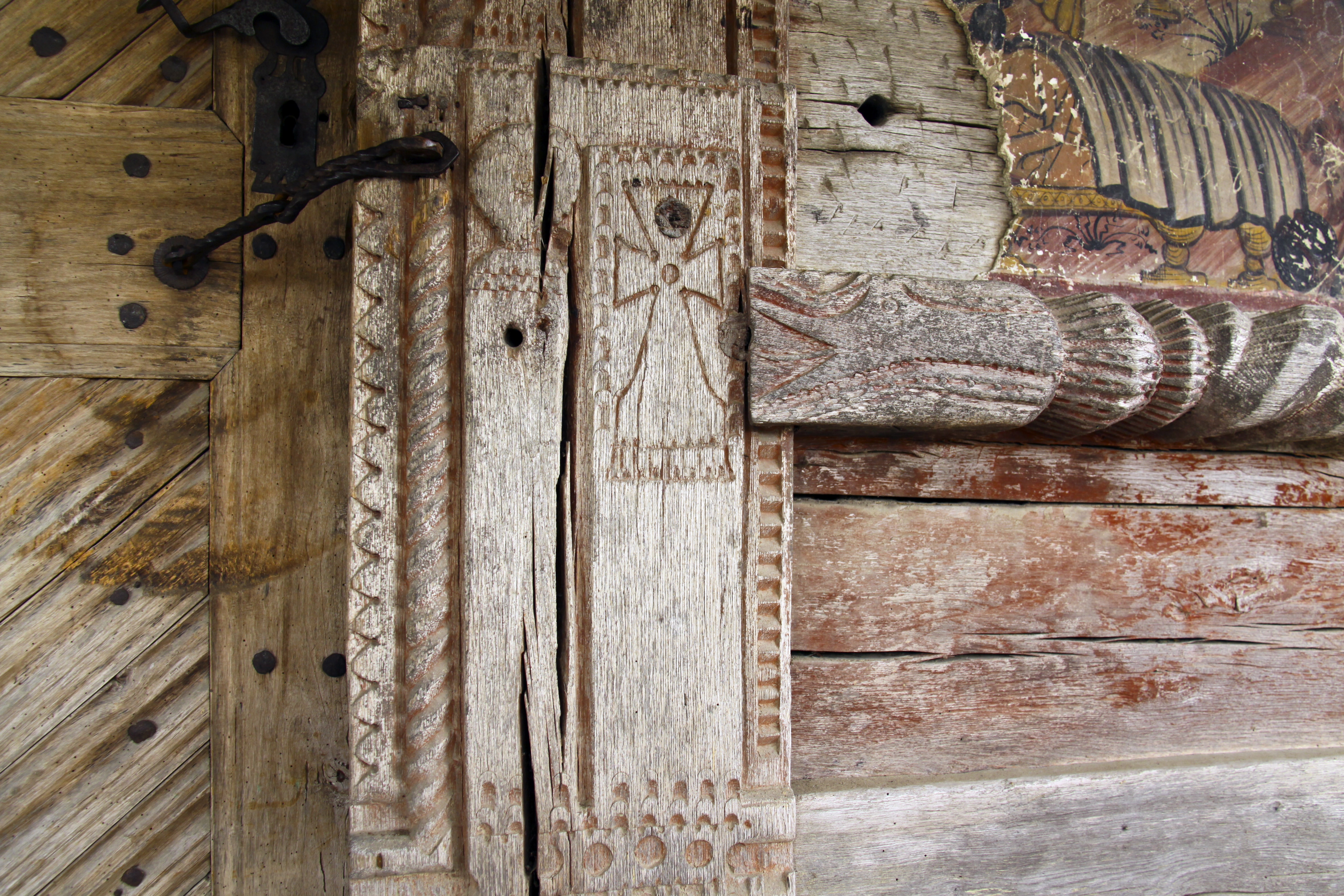 Jupâneşti, Argeş county, Romania: the wooden church, detail at the portal of the entrance.